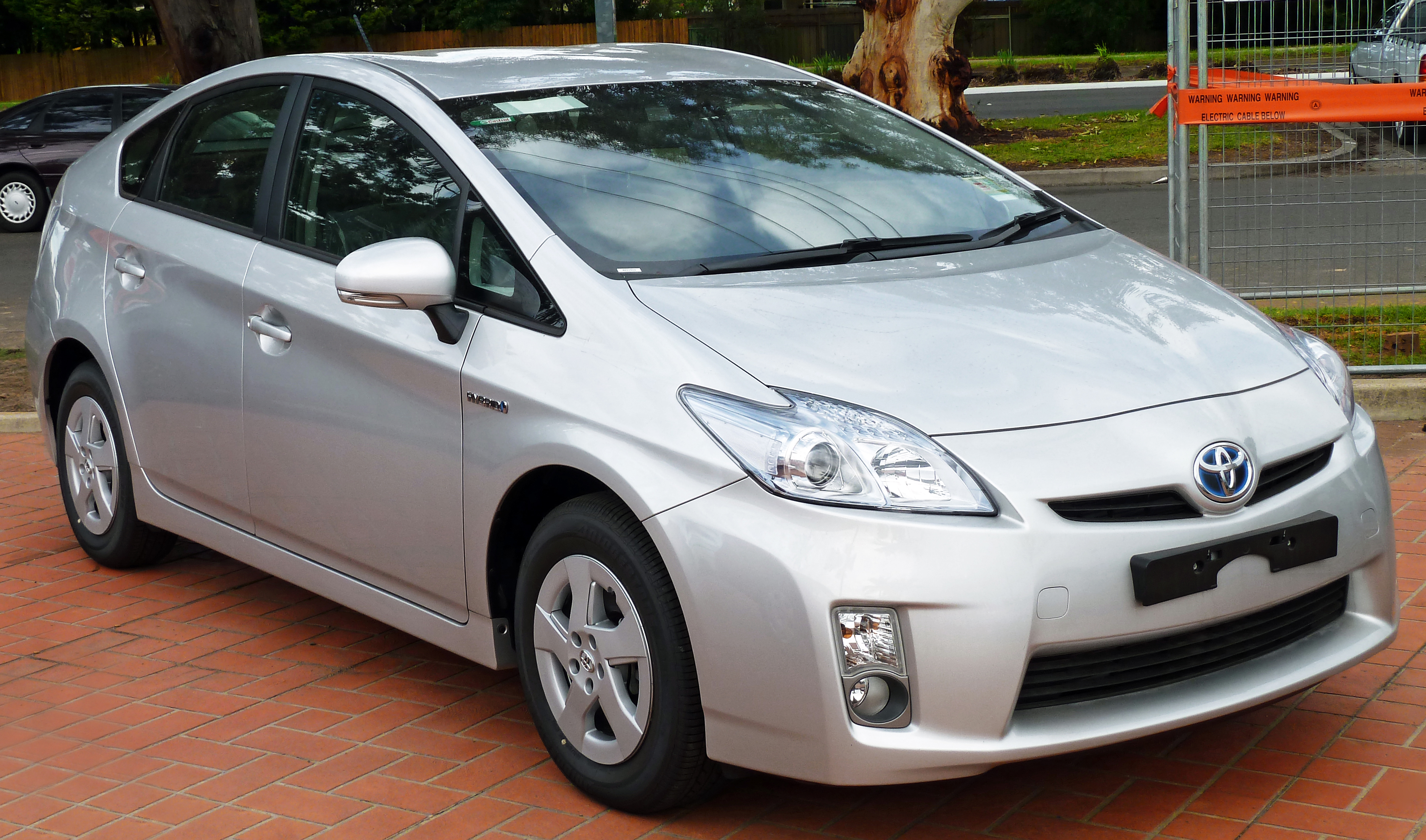 2010–2011 Toyota Prius (ZVW30R) liftback. Photographed at Stewart Toyota, Kirrawee, New South Wales, Australia.